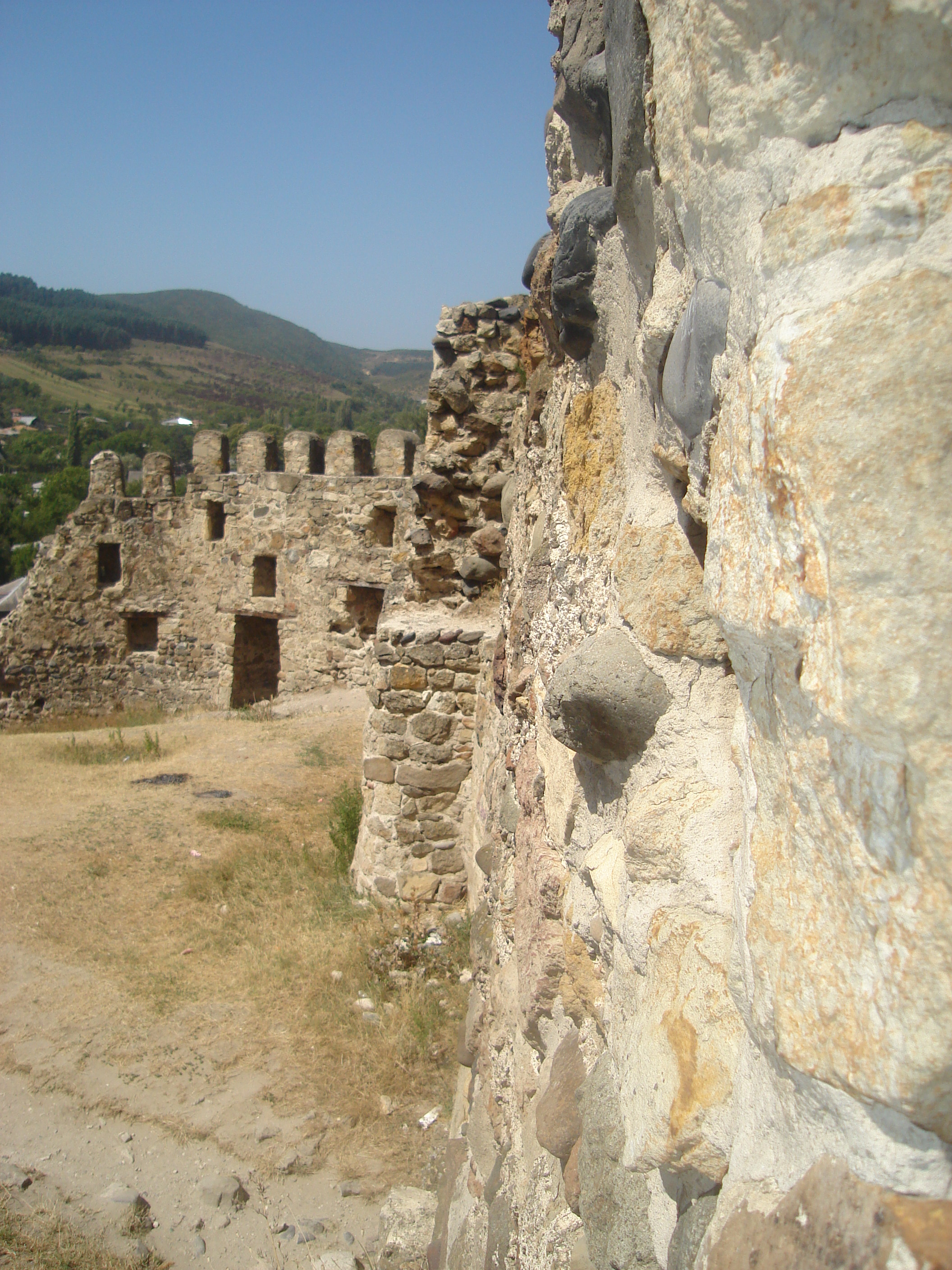 Surami fortress in Georgia